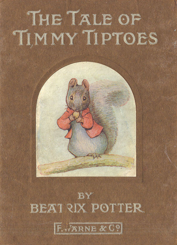 1st edition cover First published in 1911. Entered into the public domain in the UK and the rest of the European Union on 1 January 2014.